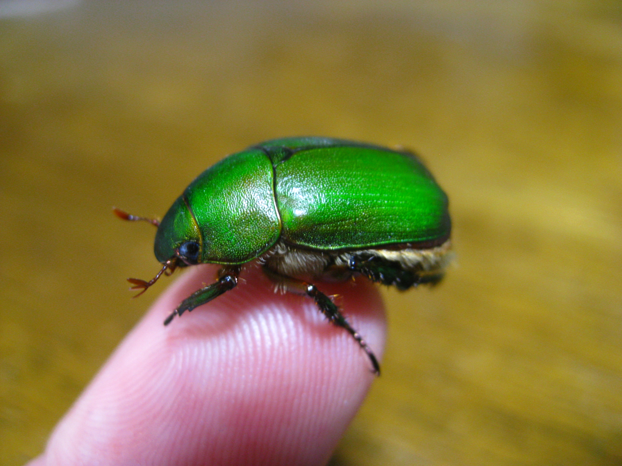 A picture of the beetle Mimela splendens, (コガネムシ in Japanese), taken with a Canon Power Shot SD850 IS digital Elph camera in Kyoto, Japan.